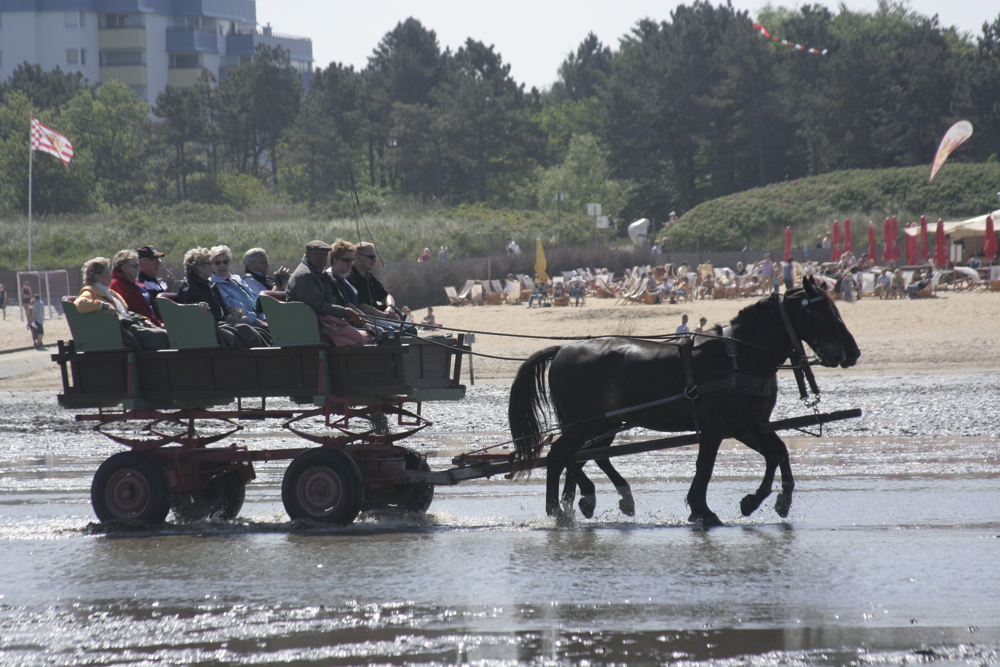 The island of Neuwerk, which actually belongs to Hamburg and not to Niedersachsen, is situated among the mudflats outside Cuxhaven. At low tide, the island can be reached on foot or by horse. A marked solid trail leads through 13 kms of mudflats and through a couple of Priele (water flows). The ride to the island on a horse-drawn Mudflat carriage is the most unique experience Cuxhaven has to offer. Each carriage holds 7 to 8 people - I don't know why I deserved getting the front seat next to the coachman, but I was happy with it!